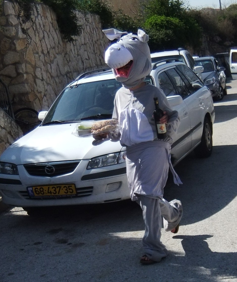 Purim in Ofra, Mishloach Manot